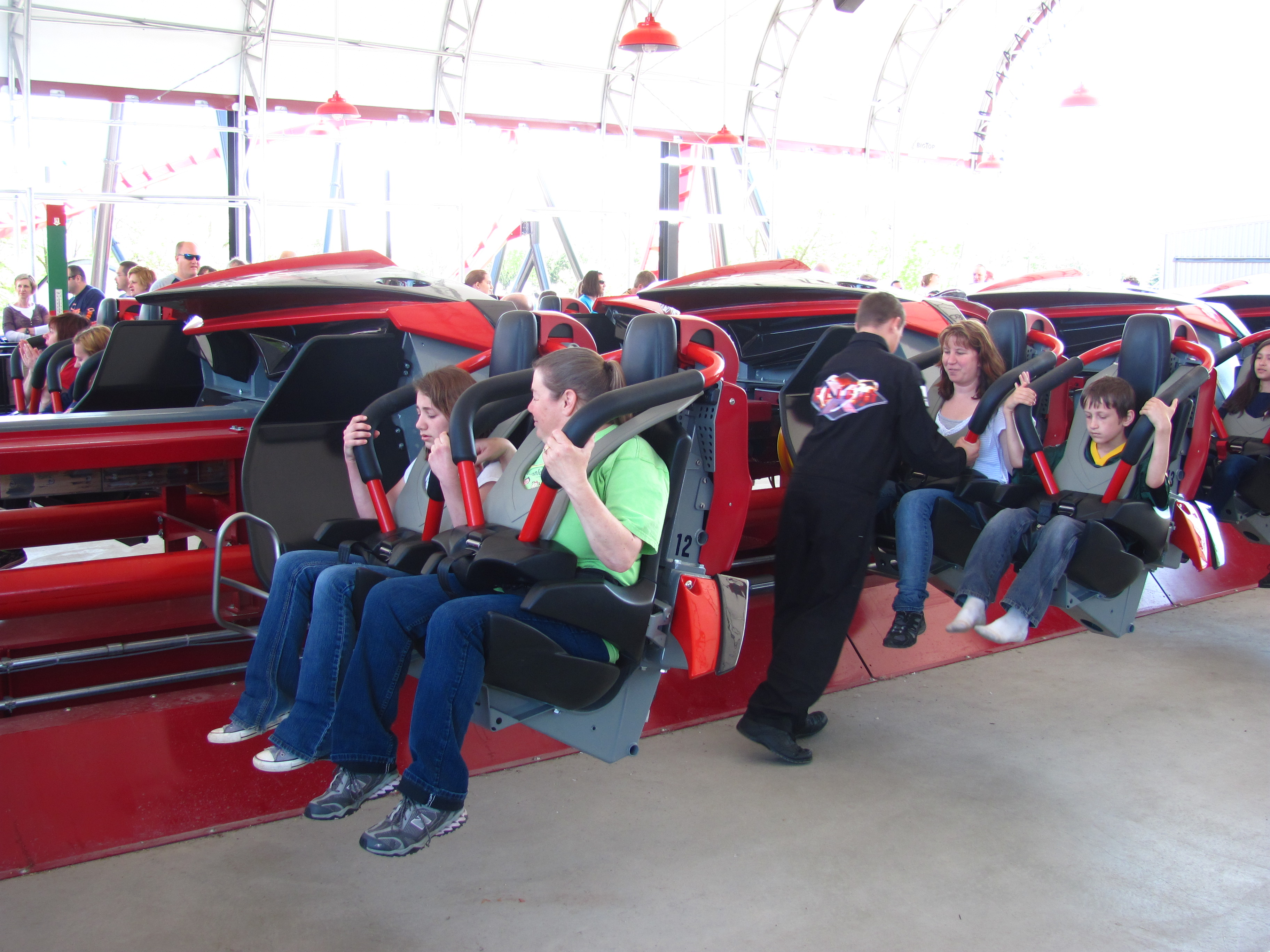 This is a photo showing a portion of the right side of X-Flights station.